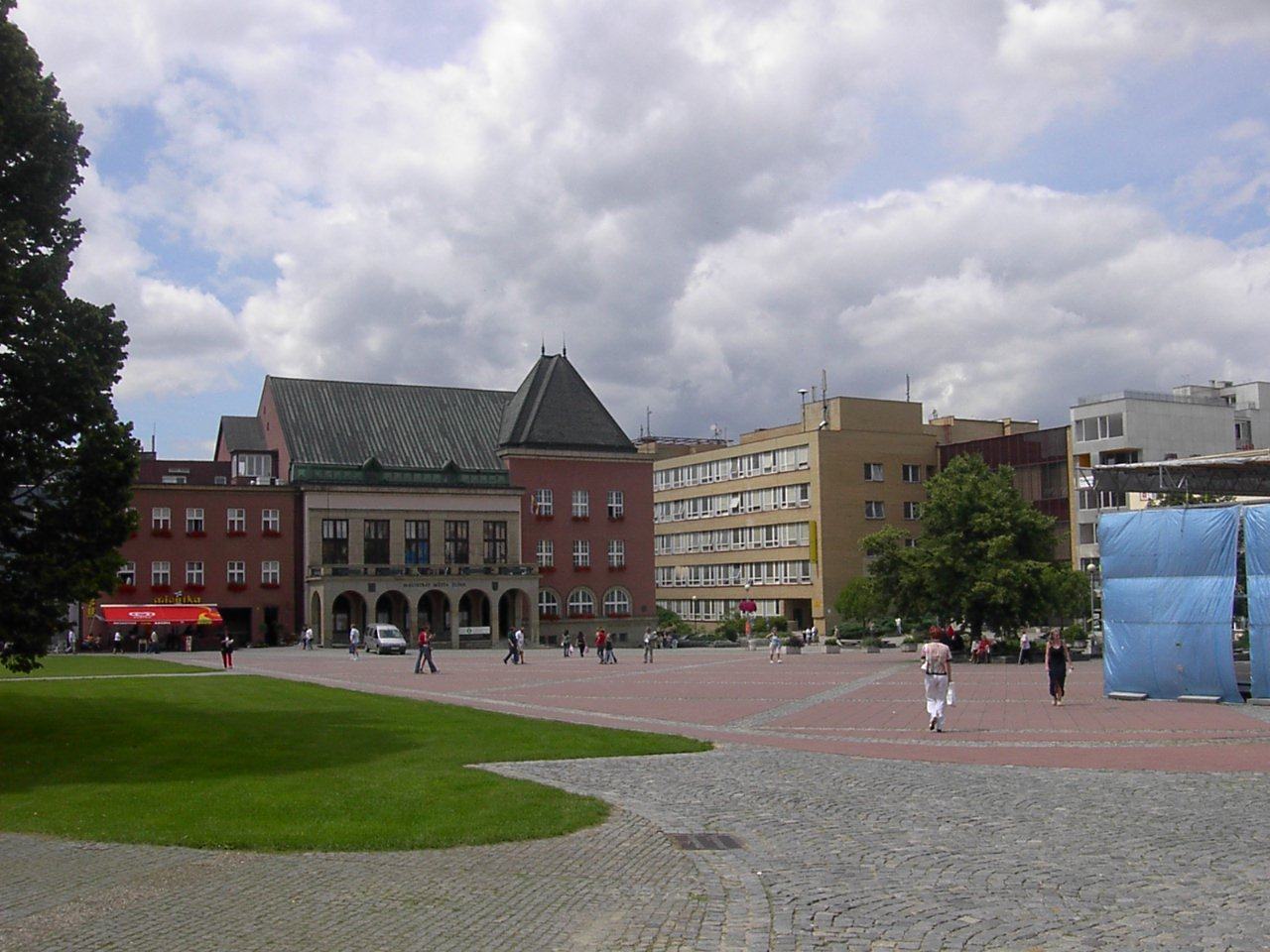 Square in Zlín.